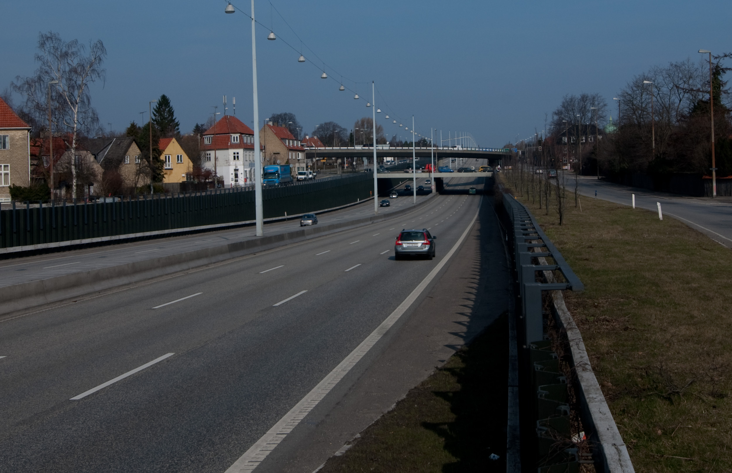 The crossing of Tuborgvej over Lyngbyvej just north of Copenhagen. Currently this is the only location on Denmark, where the same geographical (2D) contains three seperate roads.